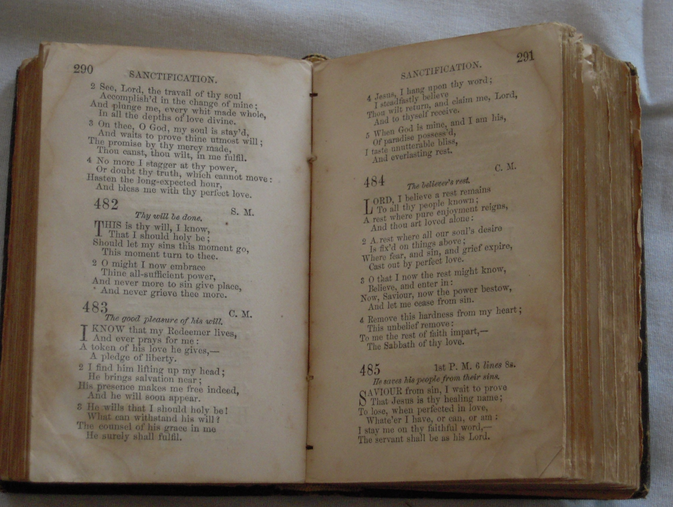 A page from an early American Methodist hymnal